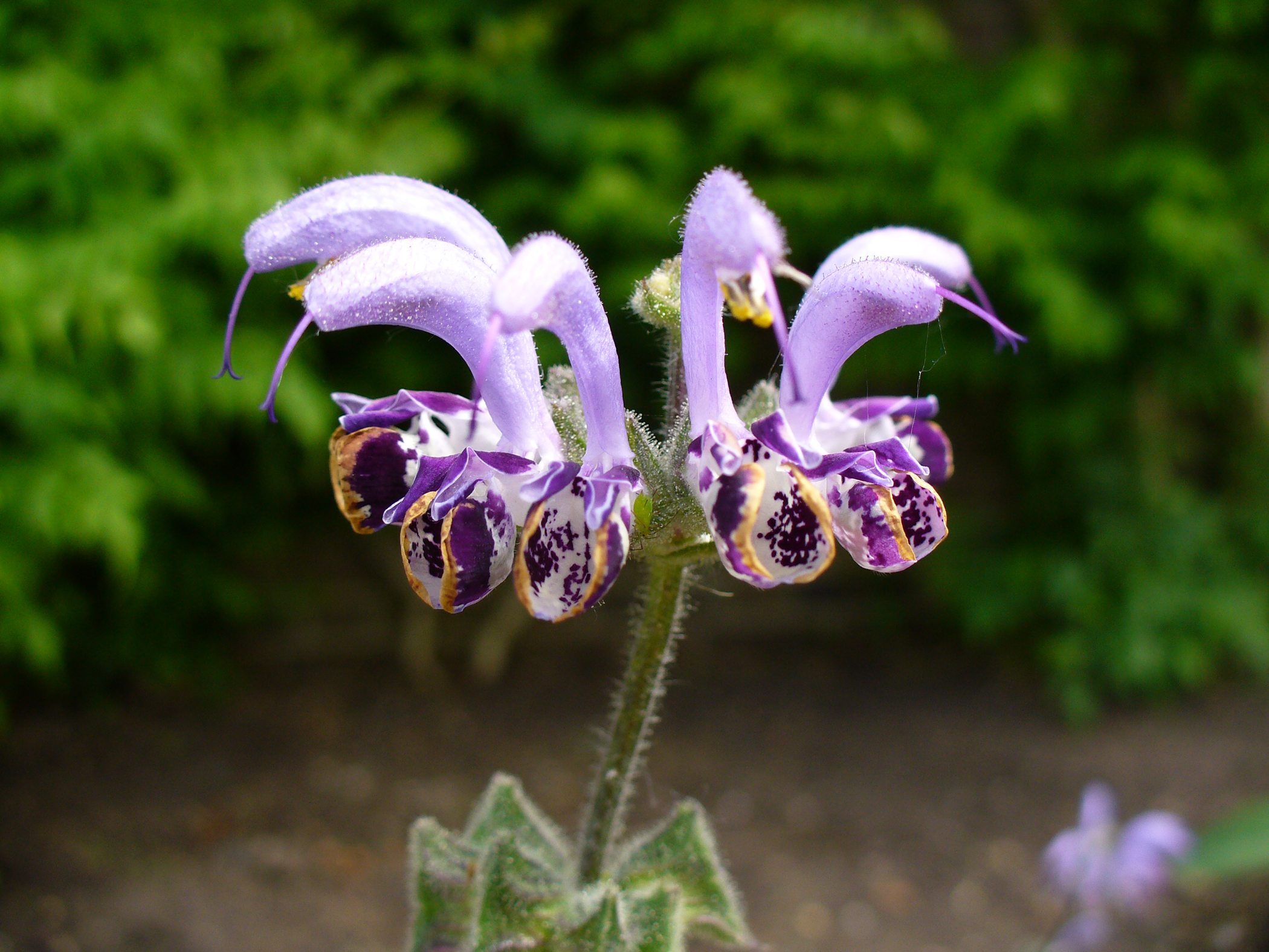 cultivated, Royal Botanic Gardens, Kew, UK.